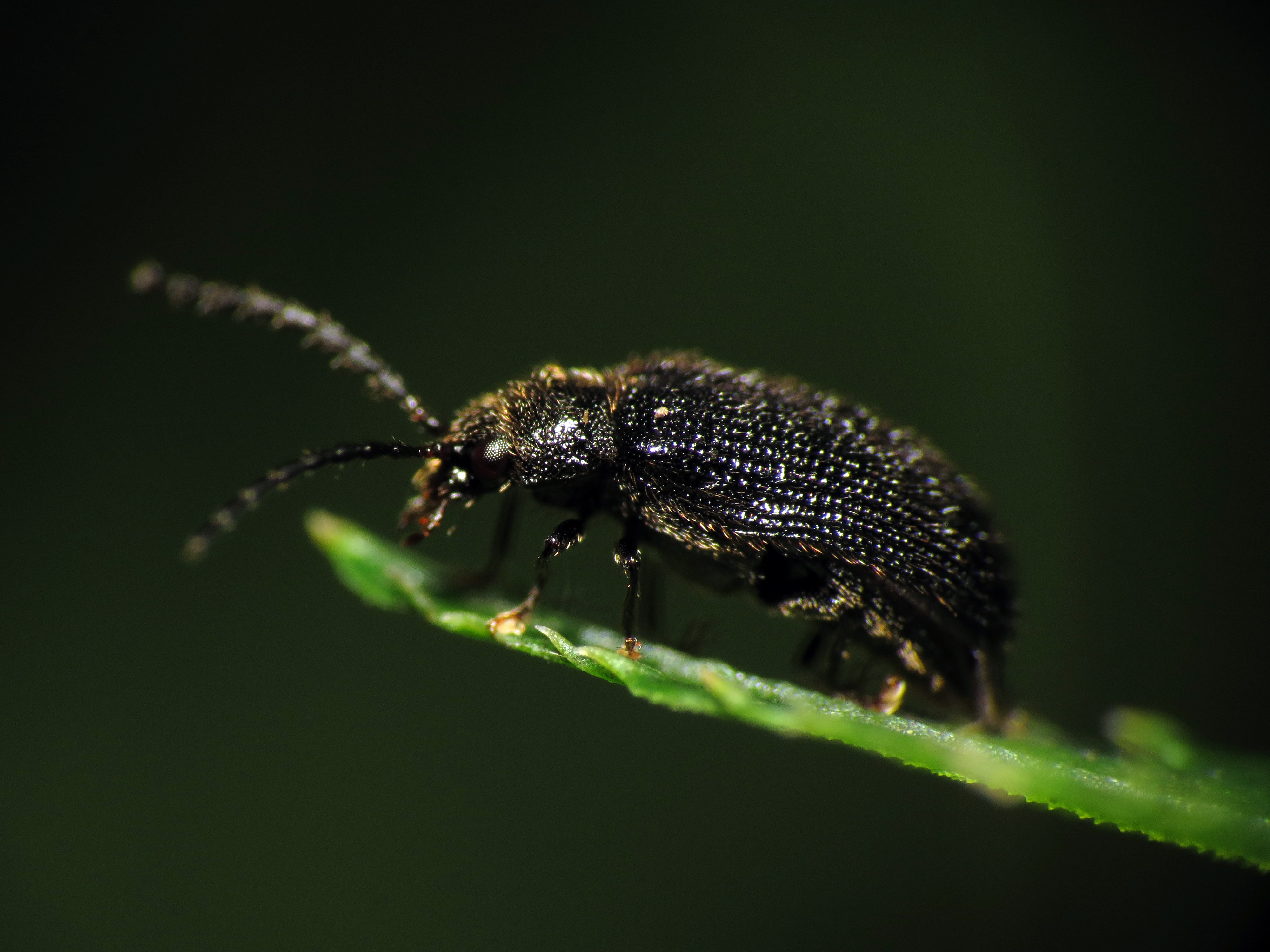 Eurypogon niger. Rock Creek Park, Washington, DC, USA